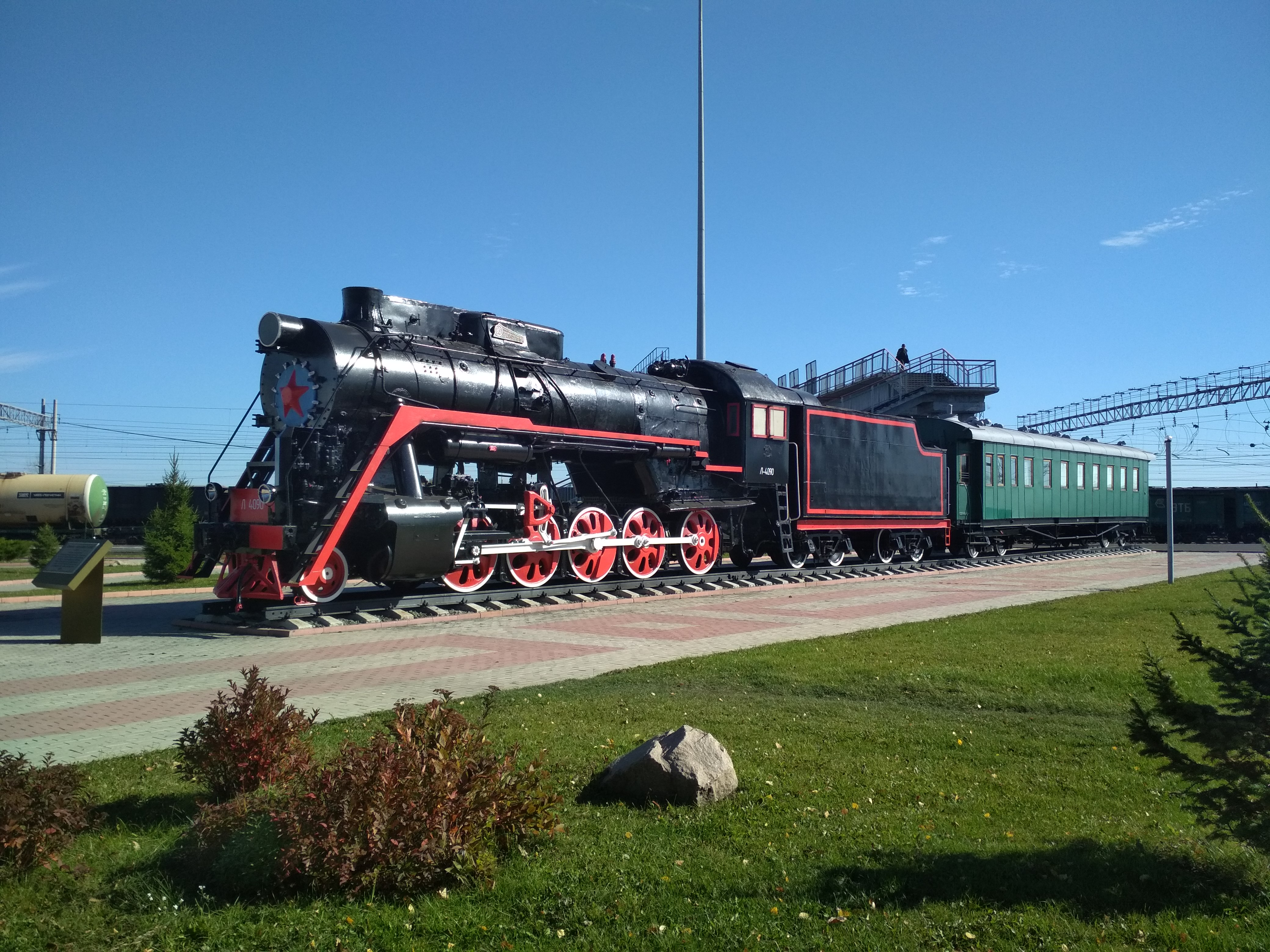 Steam locomotive L-4090 at the station Industrial Kemerovo region, Russia